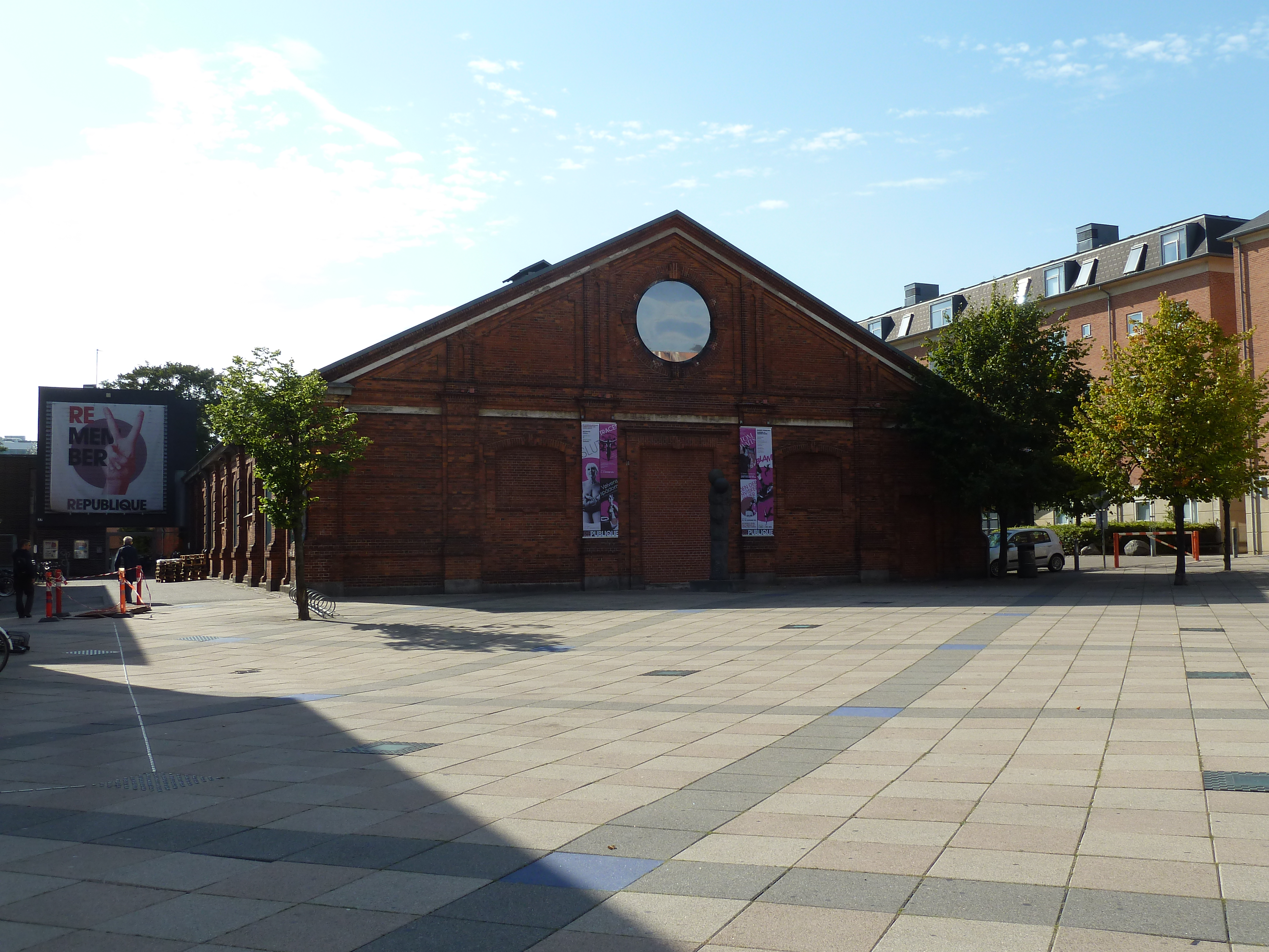 One of the two buildings (Store Scene) housing Teater Republique in Copenhagen, Denmark